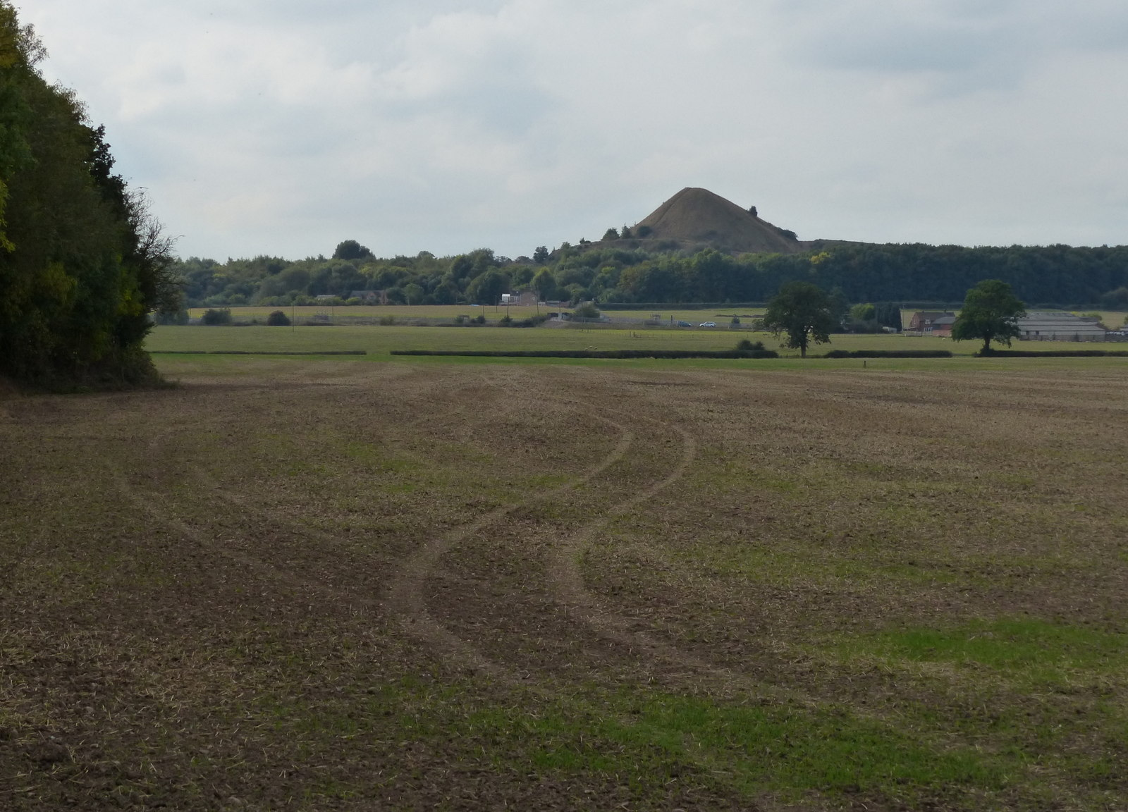 View towards Mount Judd